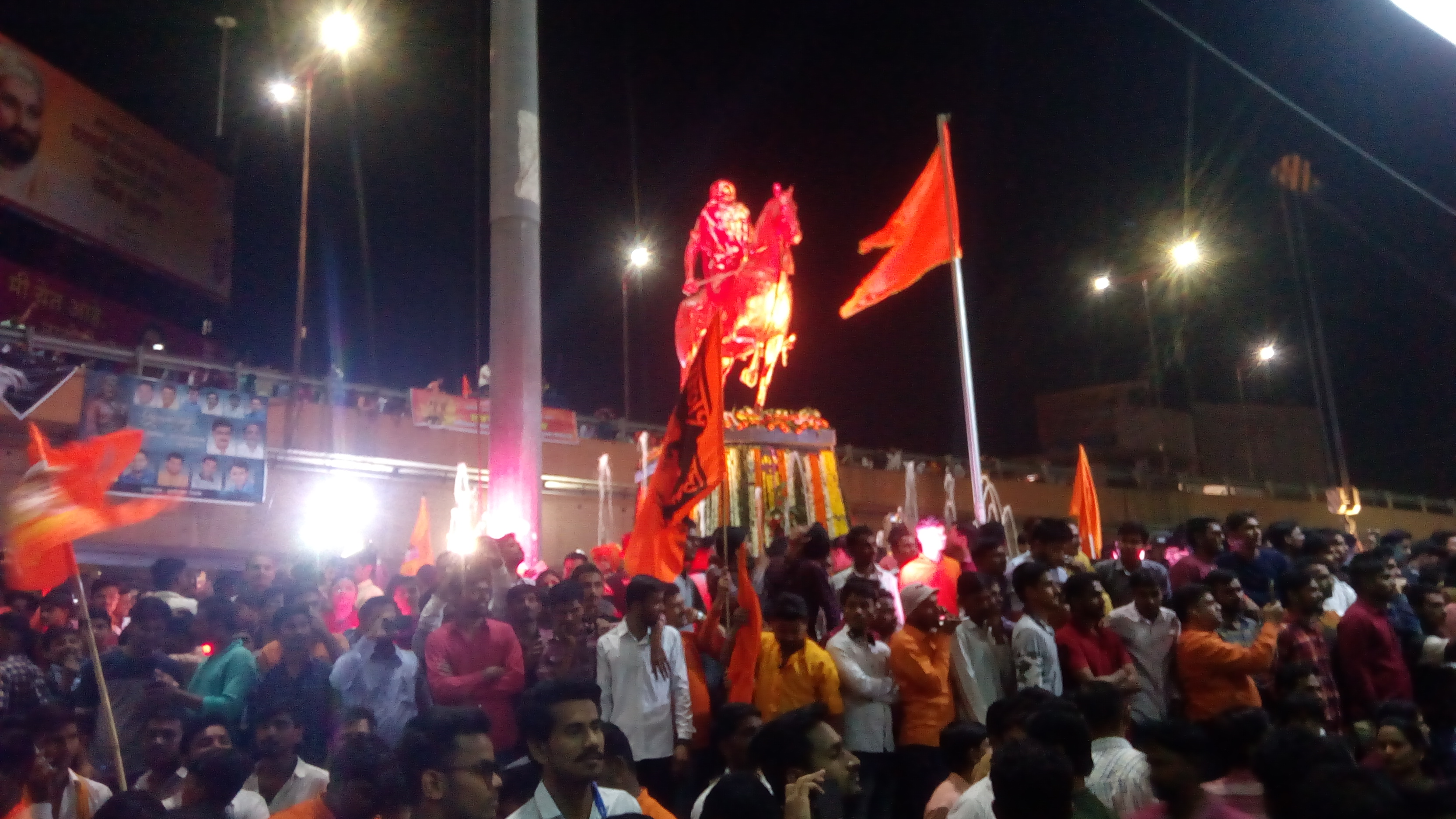 Shiv Jayanti celebration at Kranti Chowk in Aurangabad, Maharashtra